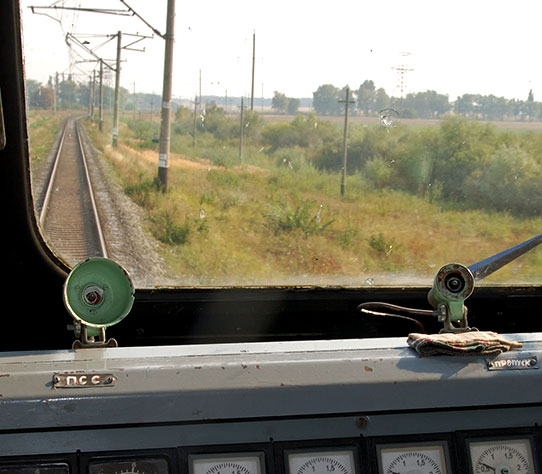 PSS lamps, electric locomotive ChS8.